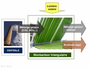 Principle of operation of the GreenFuel Corporation bioreactor (first generation bioreactor)